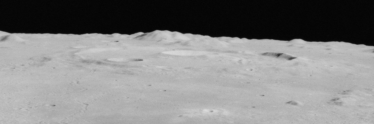 Highly oblique view facing north of Cassini crater, northeastern Mare Imbrium, on the moon.